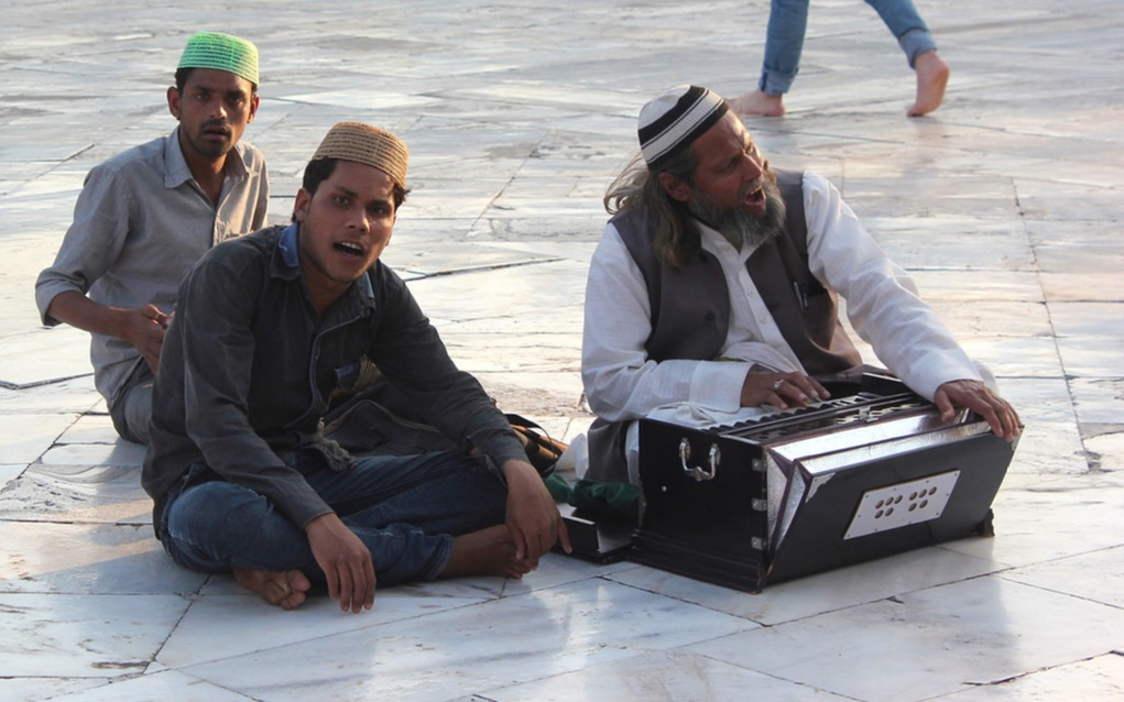 Qawwali singers at Hazrat Salim Chisti (RA) tomb, in Fatehpur sikri, India.